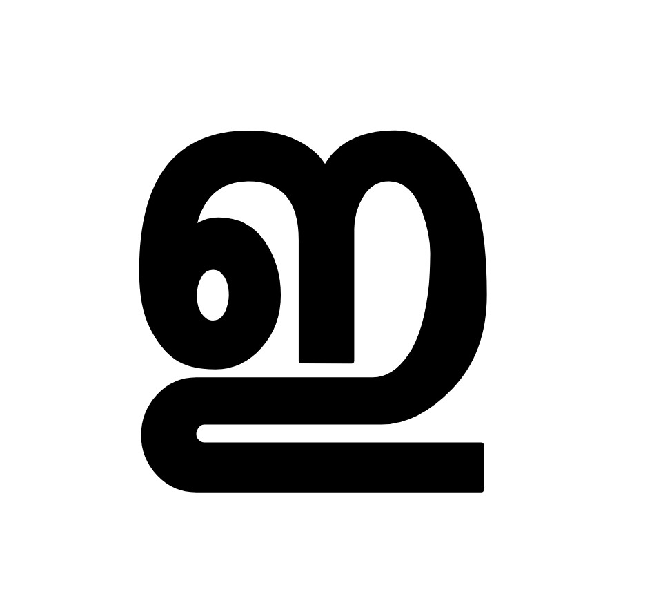 ഇ മലയാളം അക്ഷരം